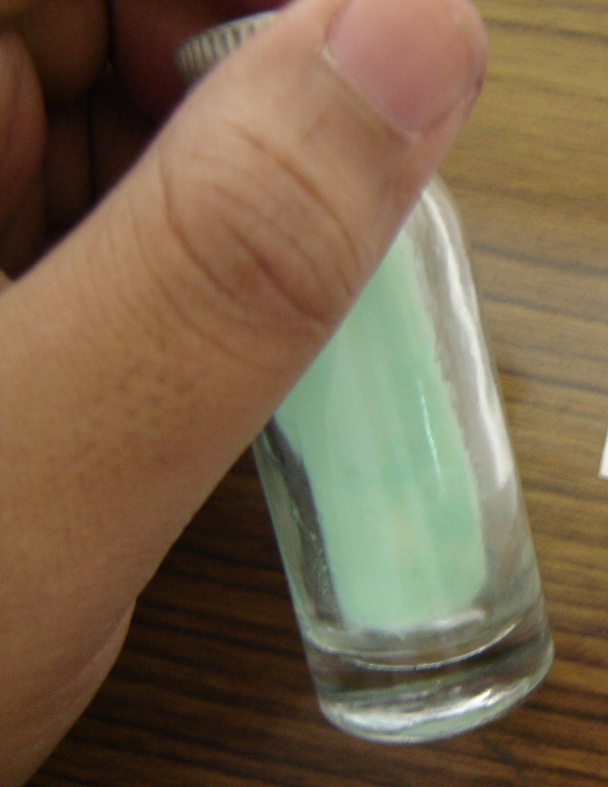 Lowenstein-Jensen medium used for growing Mycobacterium tuberculosis in Mccartney bottle.